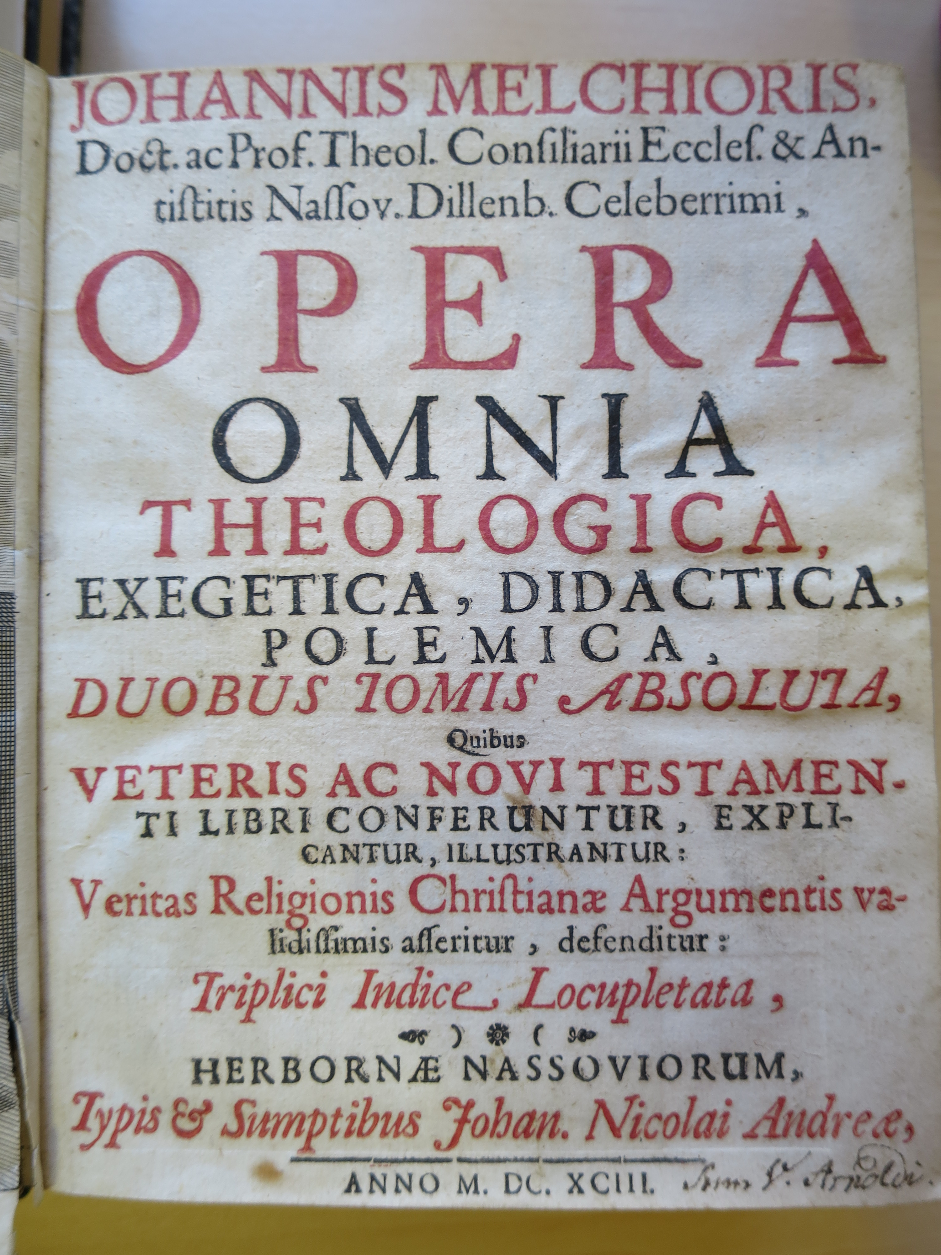 Opera Omnia Theologica, Exegetica, Didactica, Polemica, Duobus Tomis Absoluta, quibus Veteris ac Novi Testamenti libri conferuntur, explicantur, illustrantur: Veritas Religionis Christianae […] Argumentis validissimis asseritur, defenditur: Triplici Indice Locupletata, […]. Johann Nicolai Andreae. Herborn 1693. Signature: AB 33,13